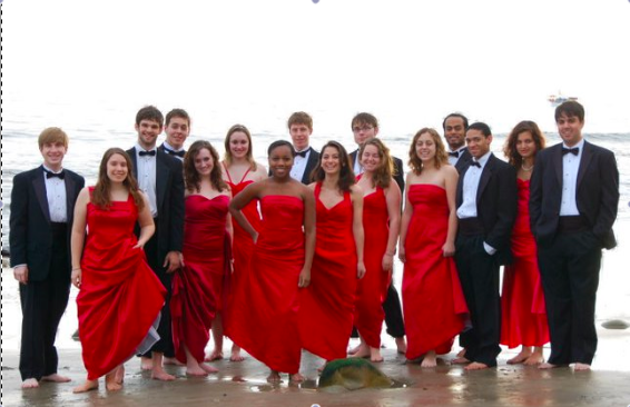 Redhot & Blue on the beach in Santa Barbara